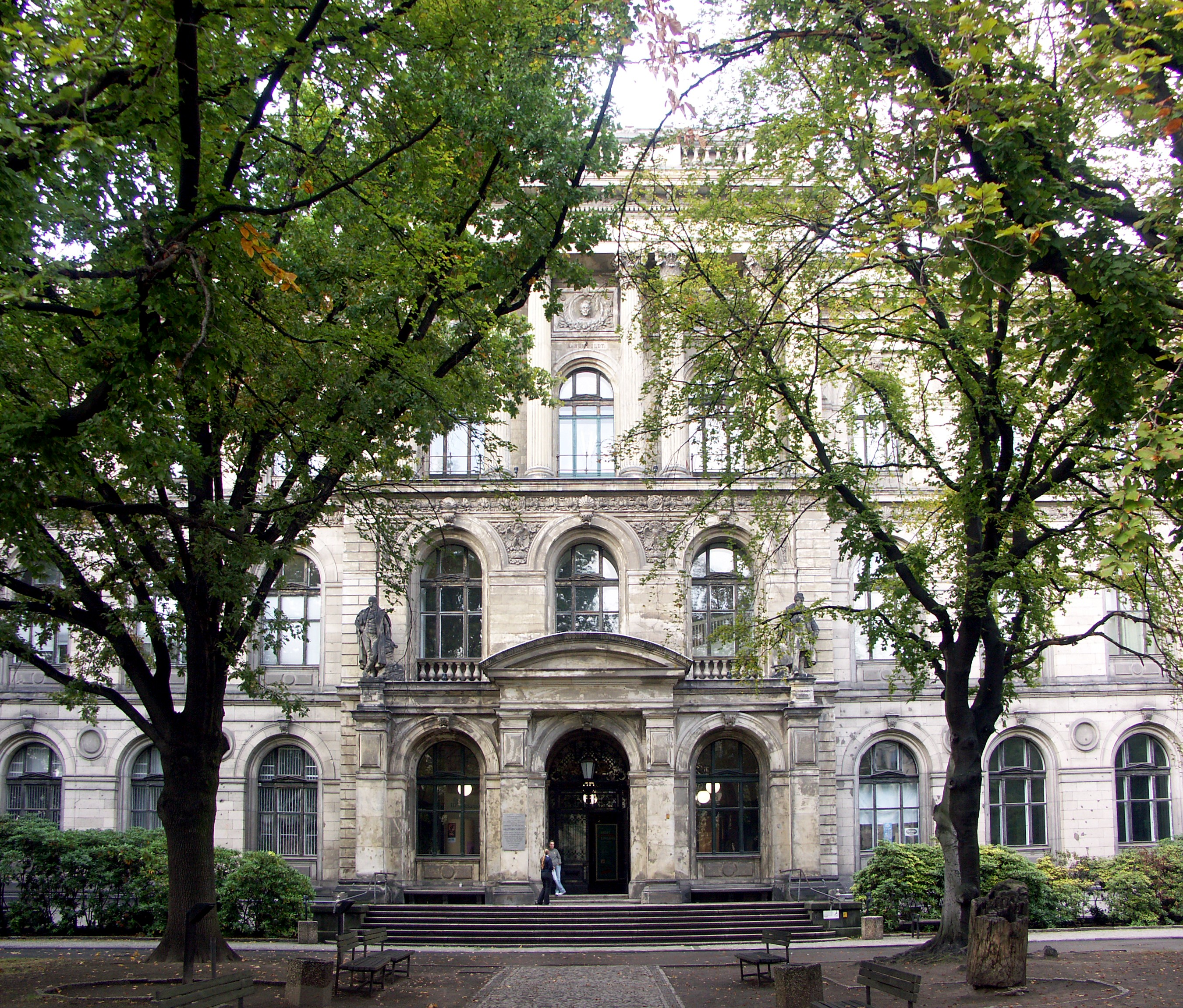 "Naturkundemuseum" (Museum of Natural History) in Berlin, main building